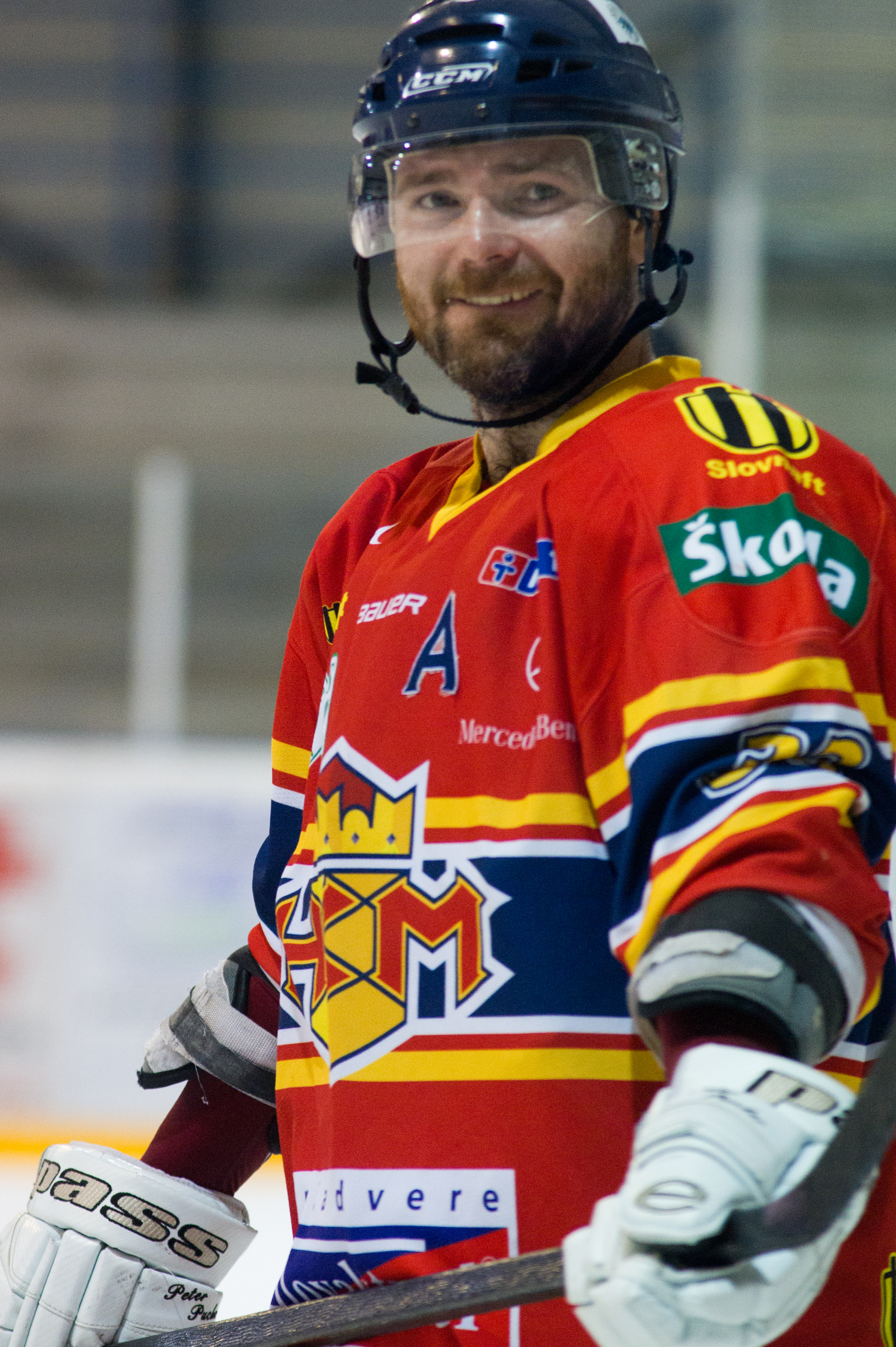 Festyvhockey 2010, Yverdon-les-Bains.